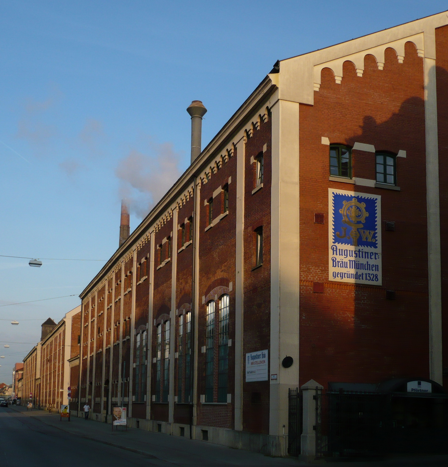 Augustiner brewery in Munich, Germany